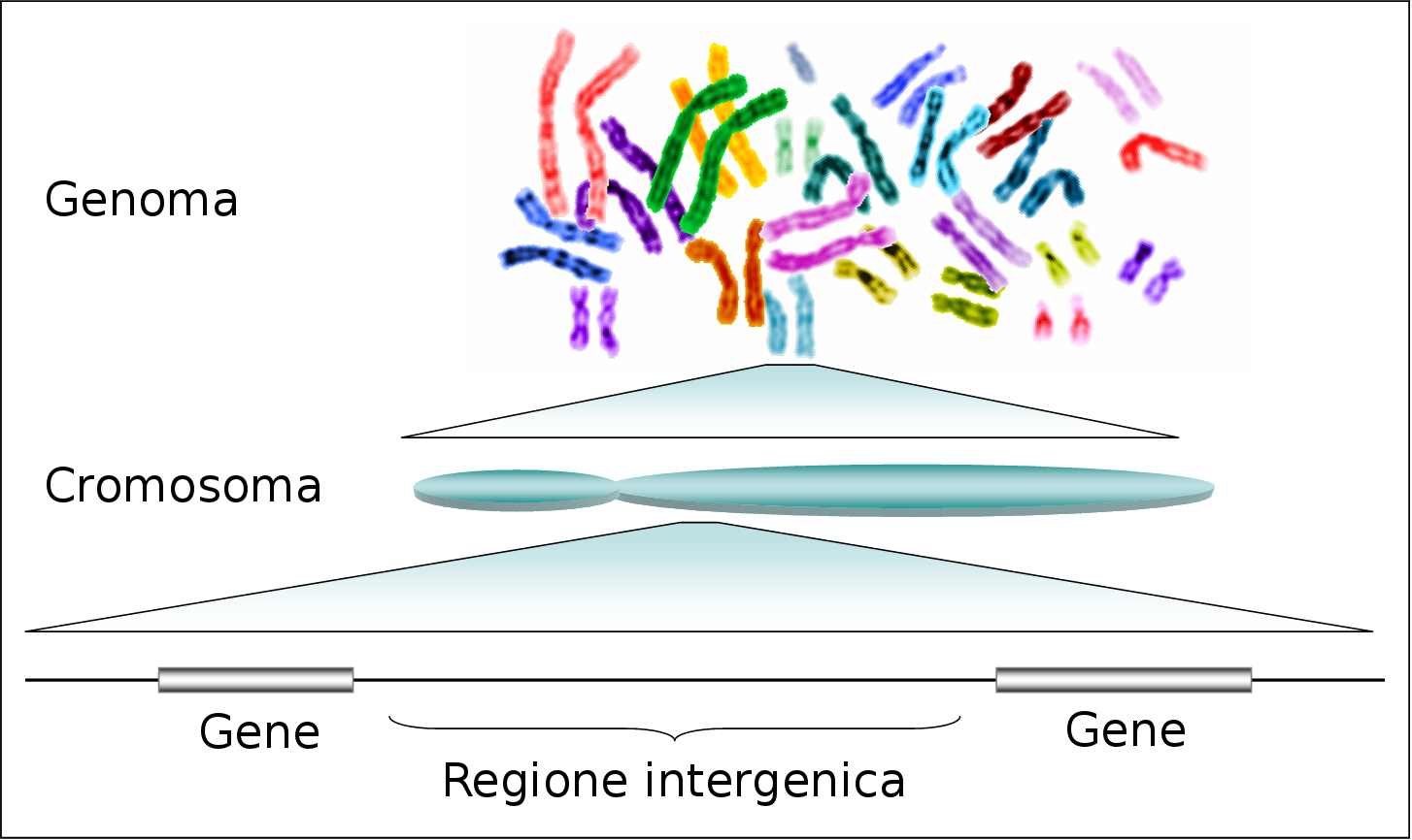 Italian version of File:Human genome to genes.png. This vector image was created with Inkscape.